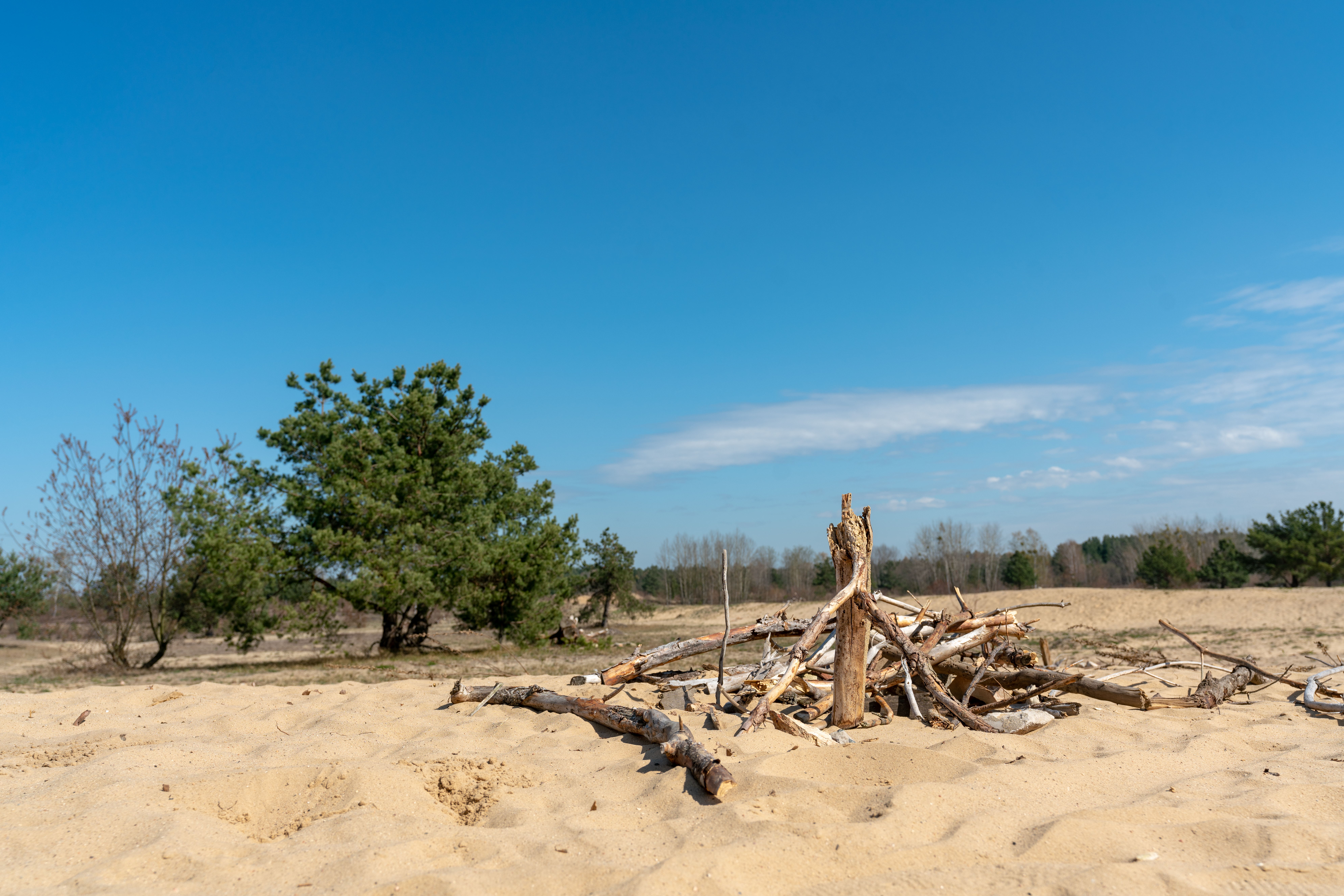 the shifting sand düne at Schönower Heide nature reserve north of Berlin